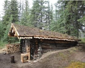 Historic miner's cabin at The Kink in central eastern Alaska.